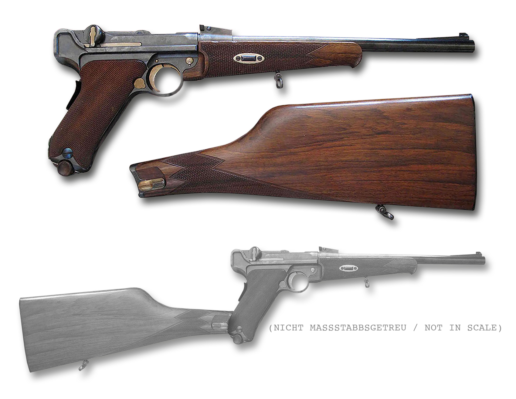 Illustration of the pistolcarbine version of the Parabellum pistol (Luger / Pistol 08) to illustrate the construction principle.